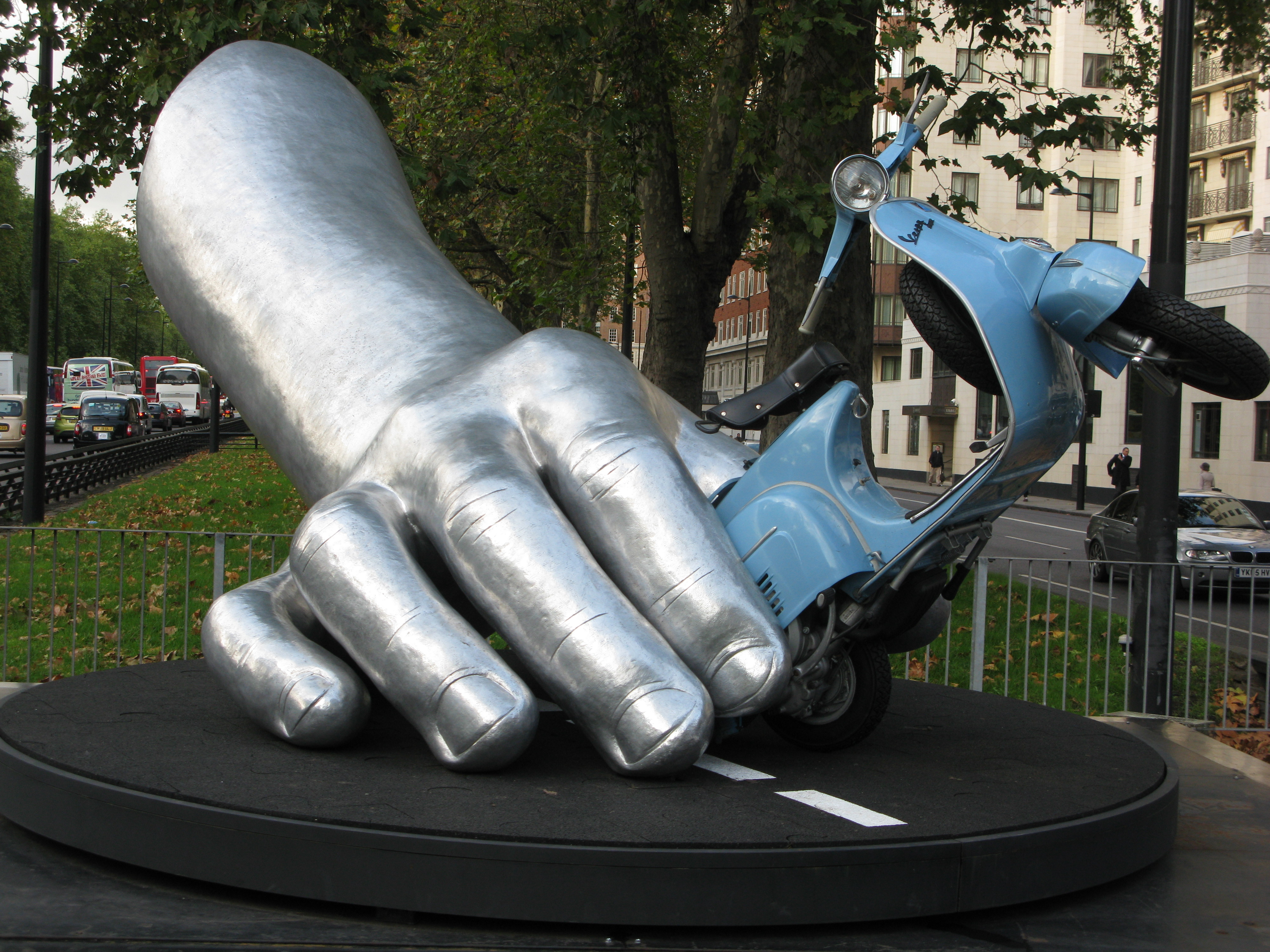 Sculpture "LA DOLCE VITA" by Lorenzo Quinn 2011; green area at the center of Park Lane / Curzon Gate, London, UK